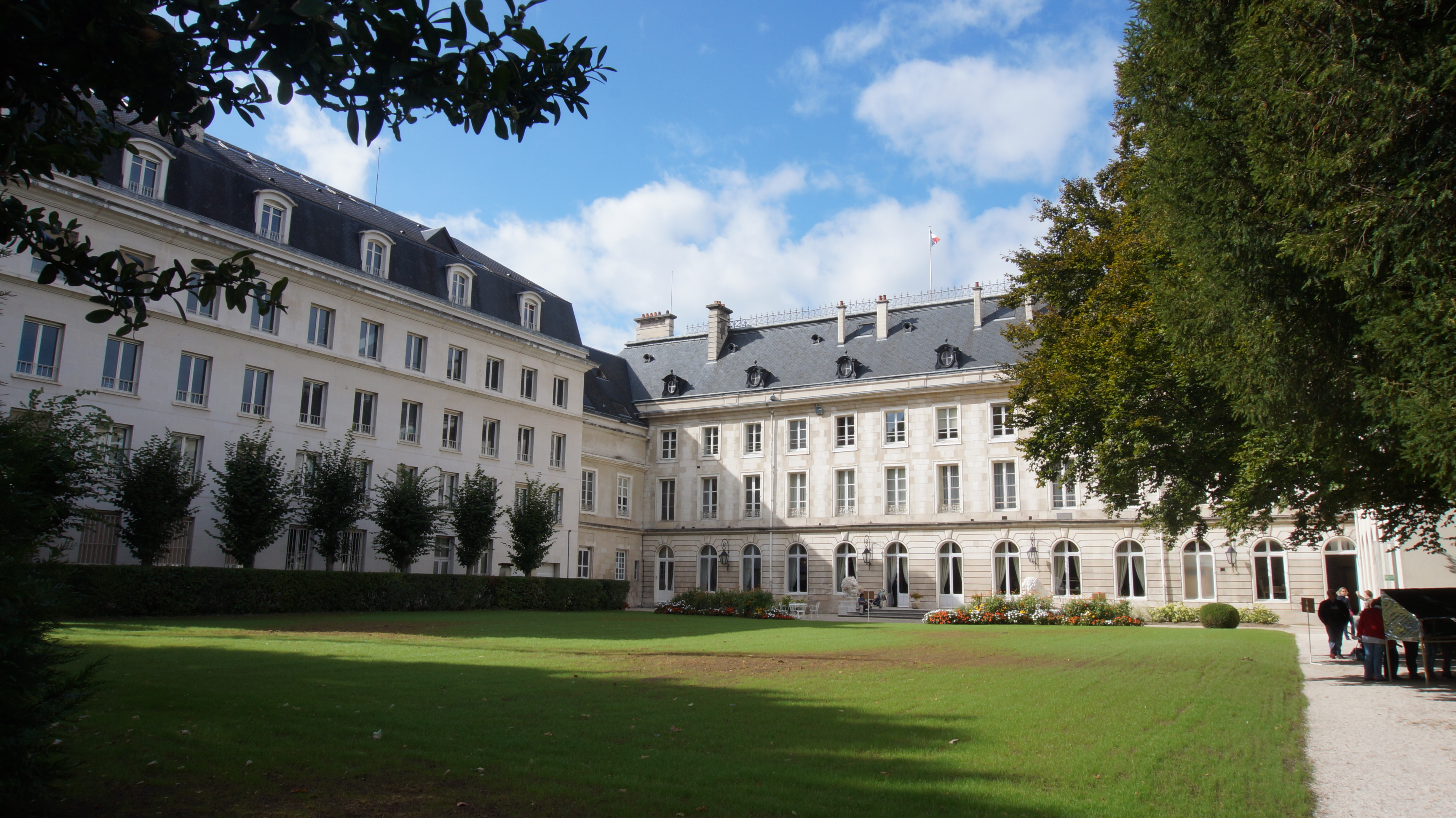 The Hôtel de préfecture de l'Aube in Troyes.